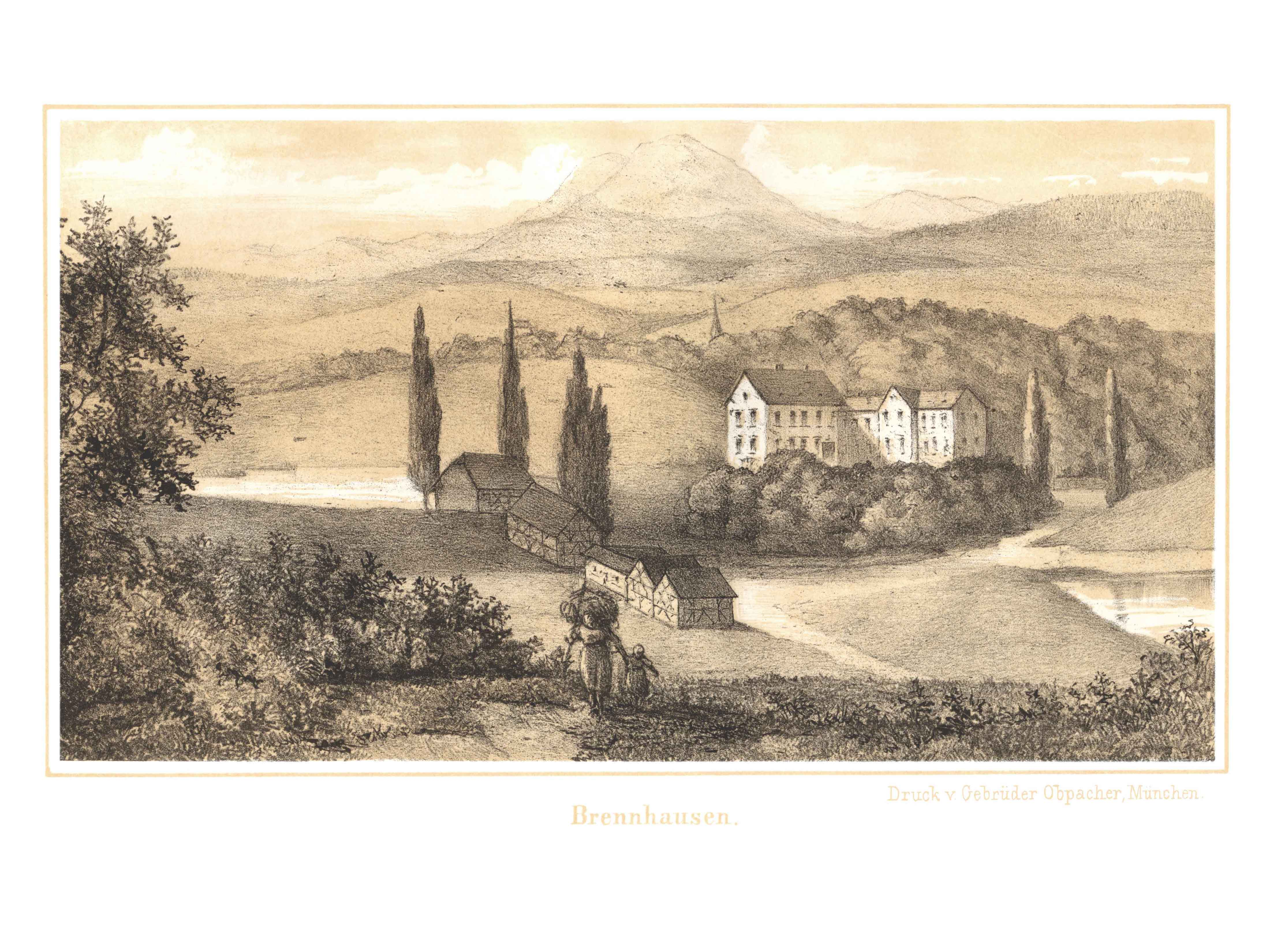 Brennhausen engraving from Bibra Family History of 1870, digitally restored by myself